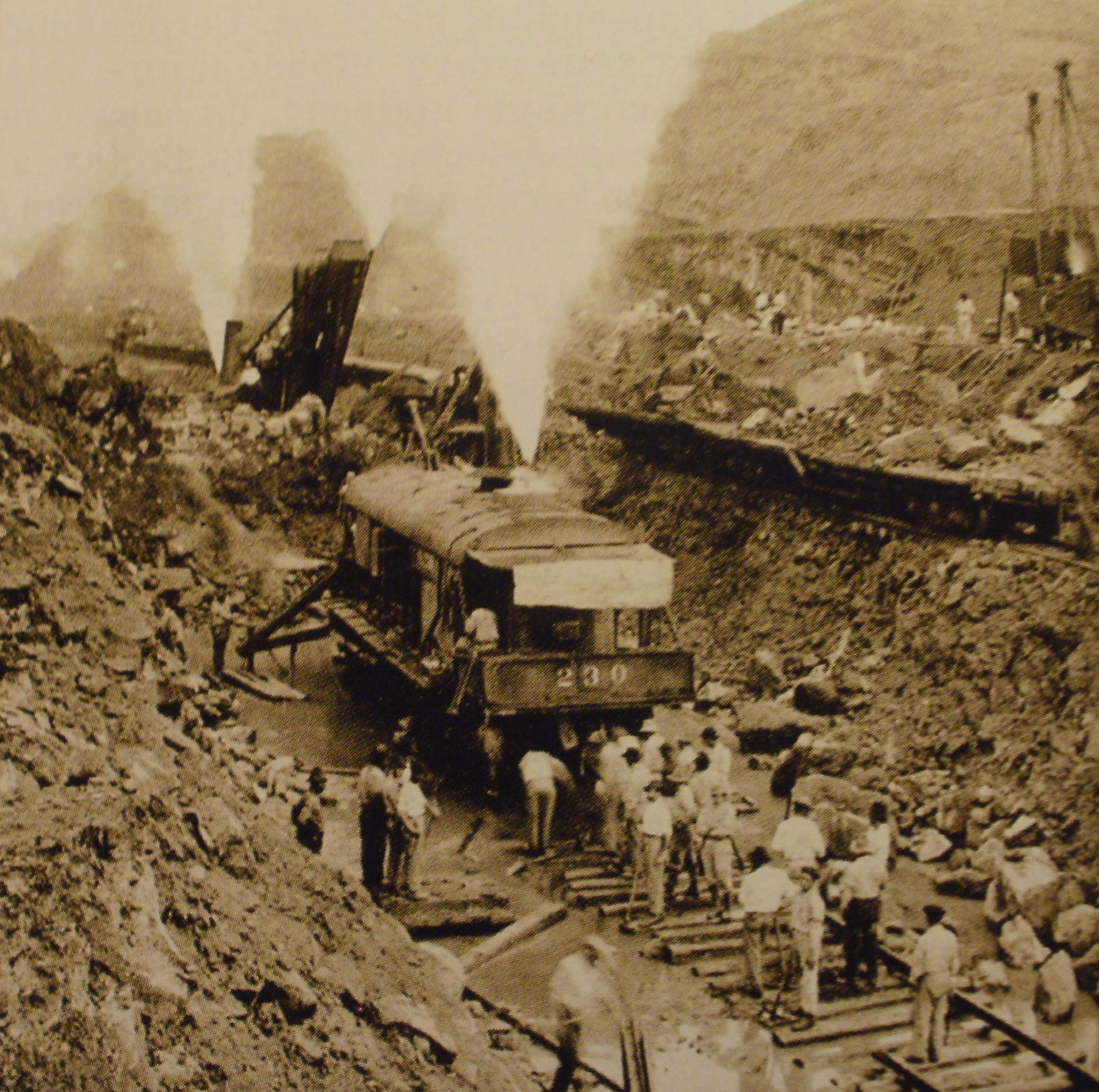 Construction of the Panamá Canal.